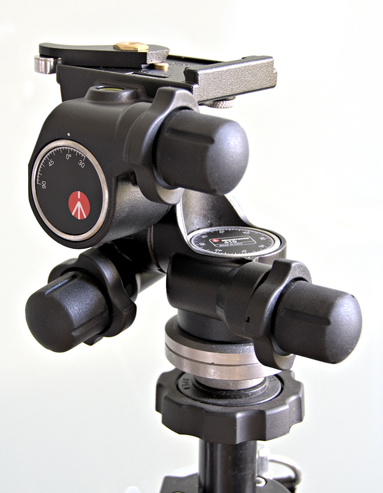 Manfrotto 410 geared tripod head with quick release camera plate system.